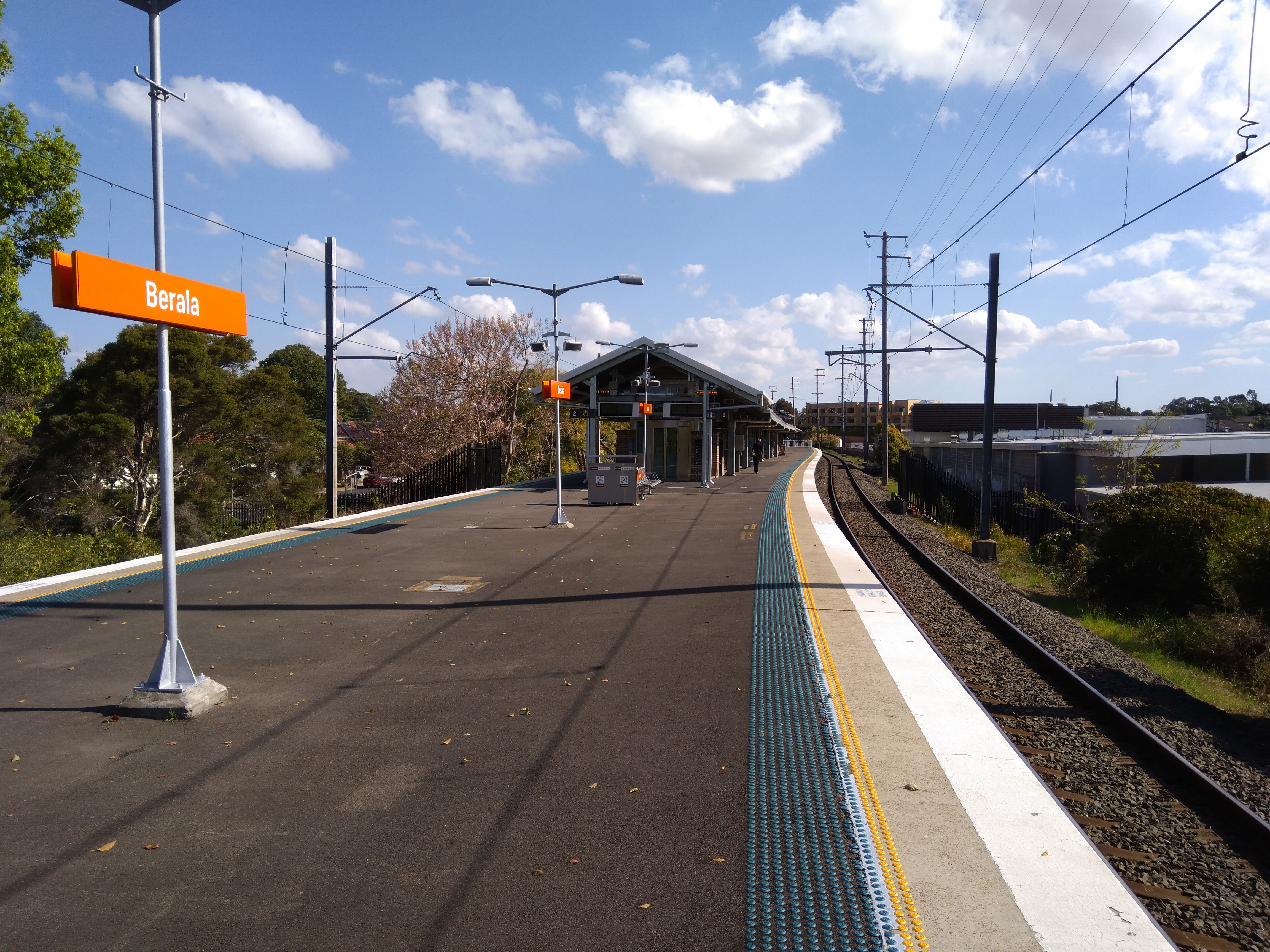 Looking south west on the platform at Berala railway station.